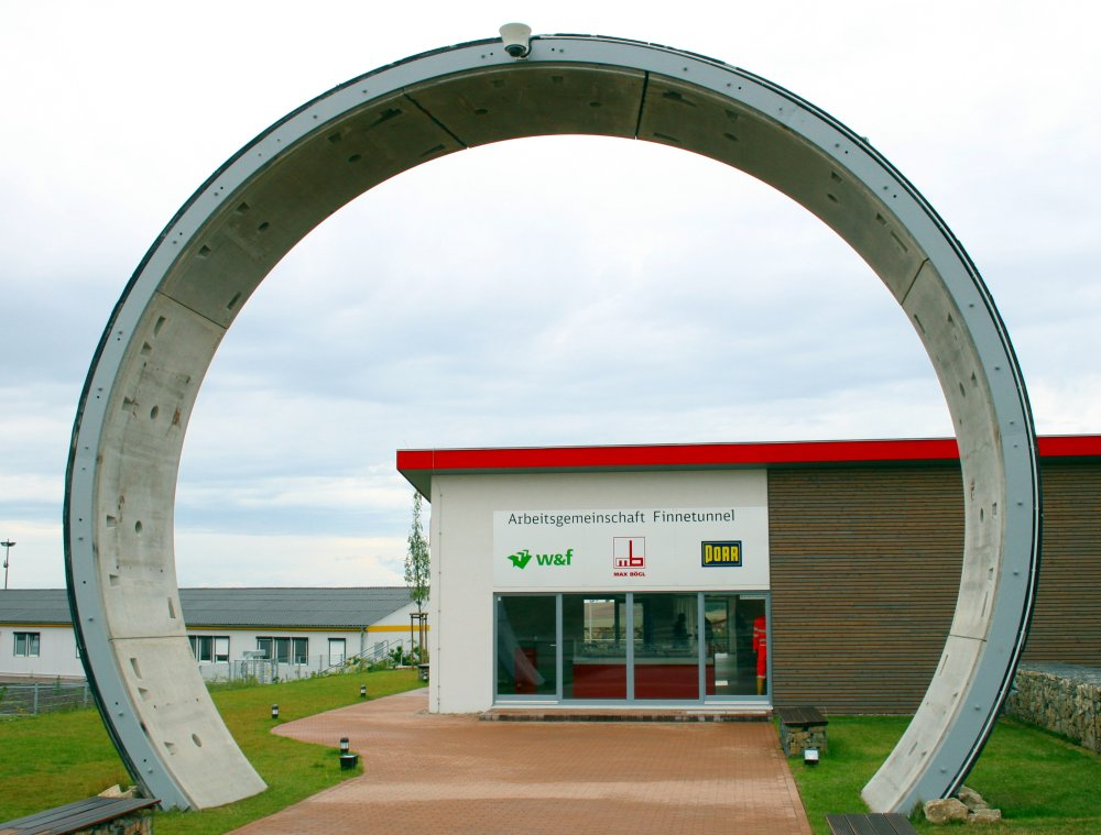 A tubbing ring, displayed at the Finne Tunnel information center. The ring comes from the manucaturing site at the Hubertus Tunnel (The Hague).